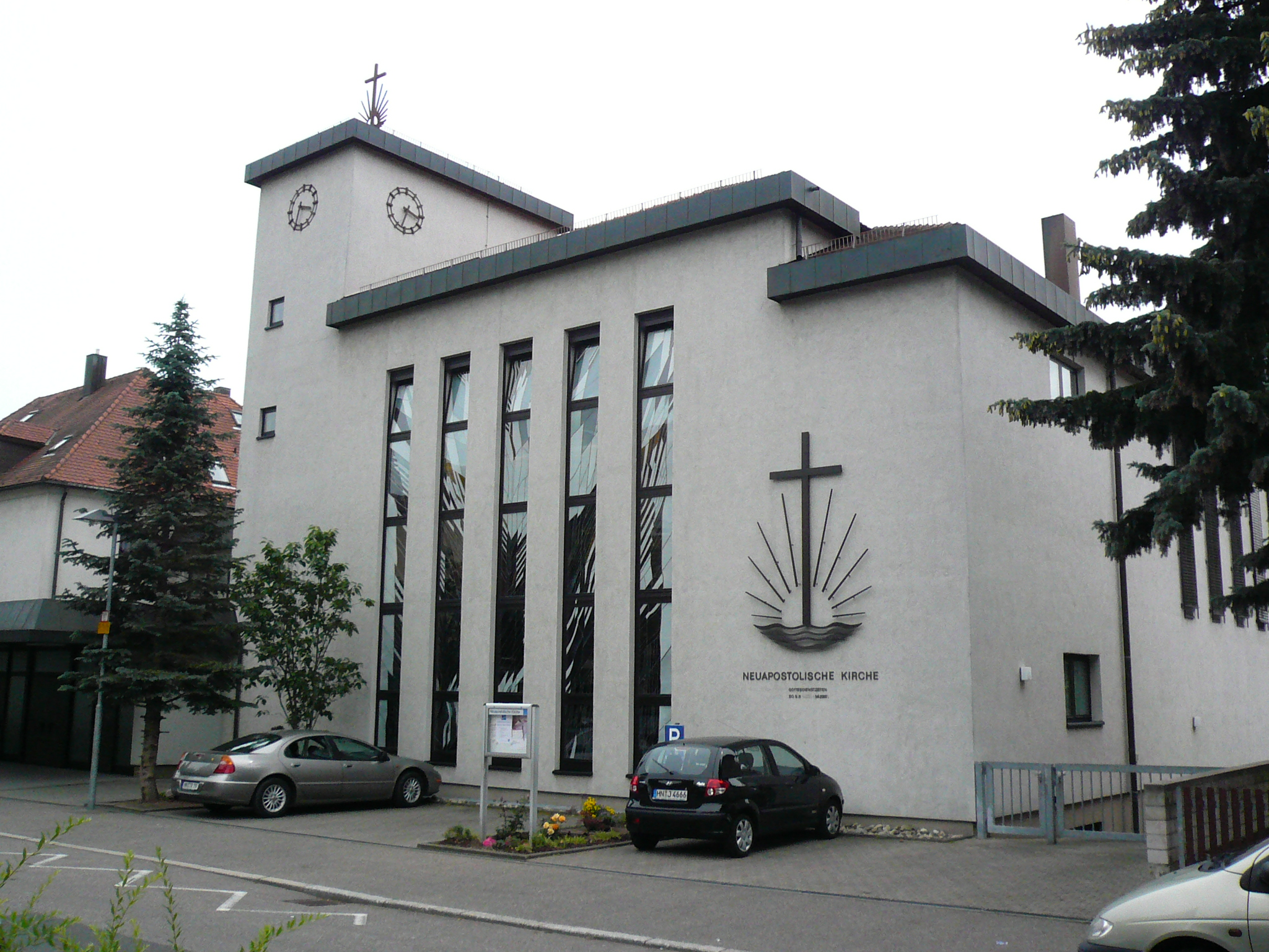 New Apostolic congregation Heilbronn, Germany